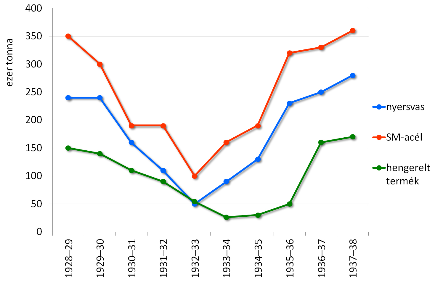 Production data between 1928 and 1938 in the Ózd Metallurgical Works